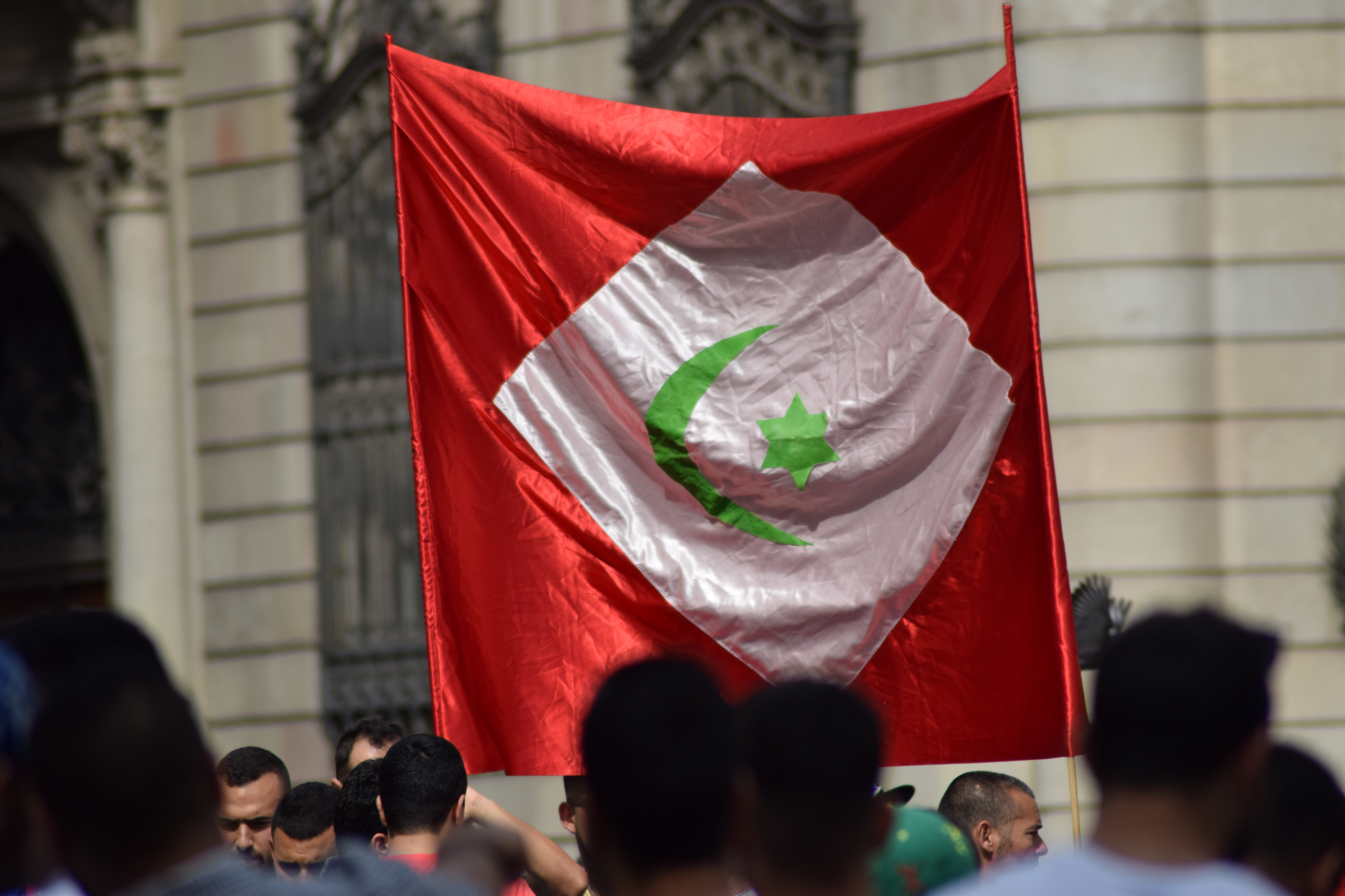 Flag of the Rif Republic in a demonstration in Barcelona, 28/5/2017.